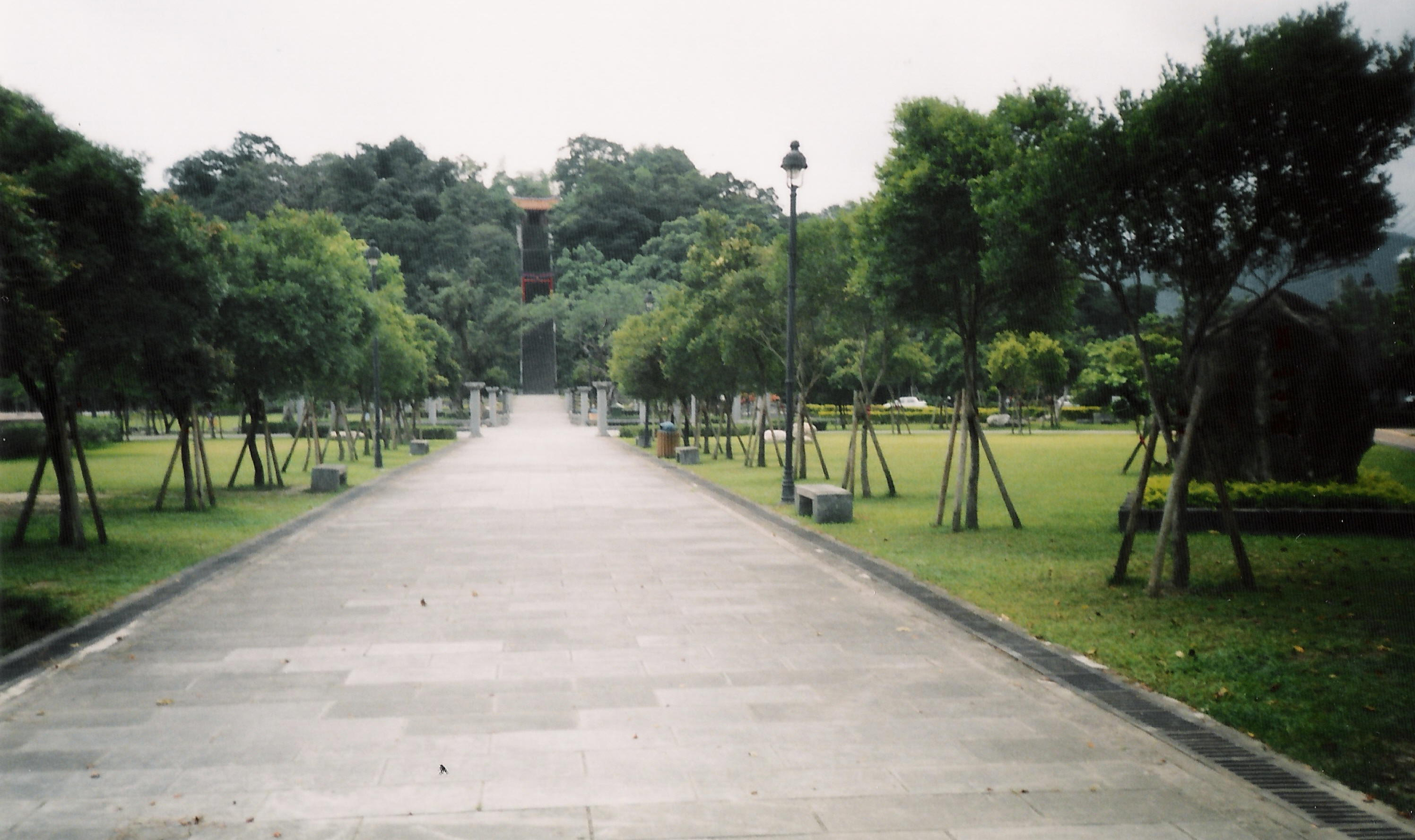 Yilan-Yuanshan Park , Taiwan